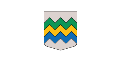 Flag of the former Garkalne parish, Latvia. In 2006 the parish was transformed into today’s Garkalne Municipality.